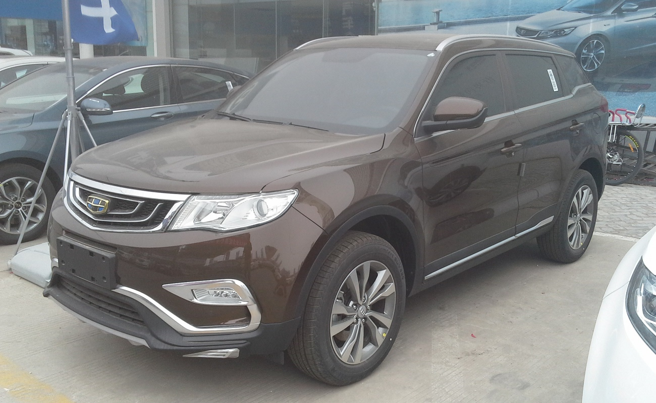 Geely Boyue photographed in Yinchuan, Ningxia province, China.